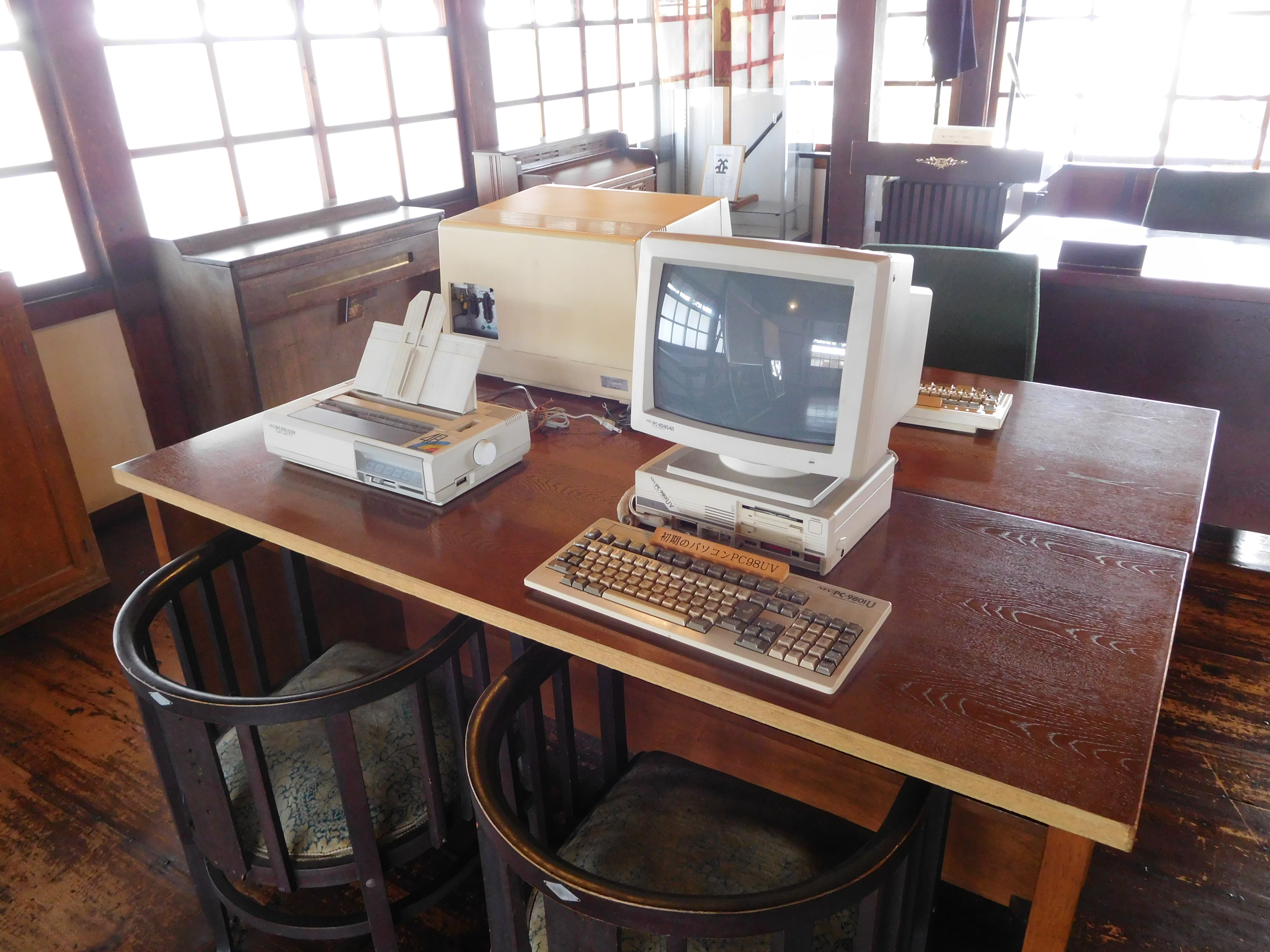 This computer is NEC PC-9801UV. It is exhibiting in Takayama City Archives Museum, Japan.